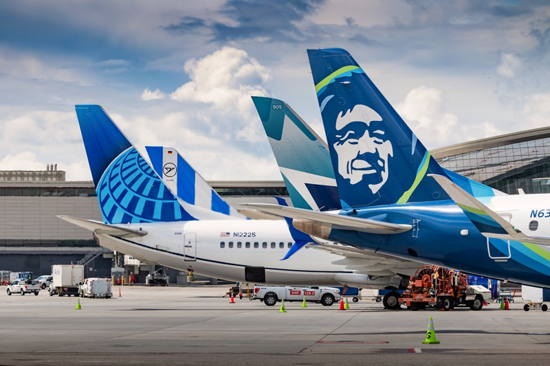 Concourse E at Calgary International Airport.